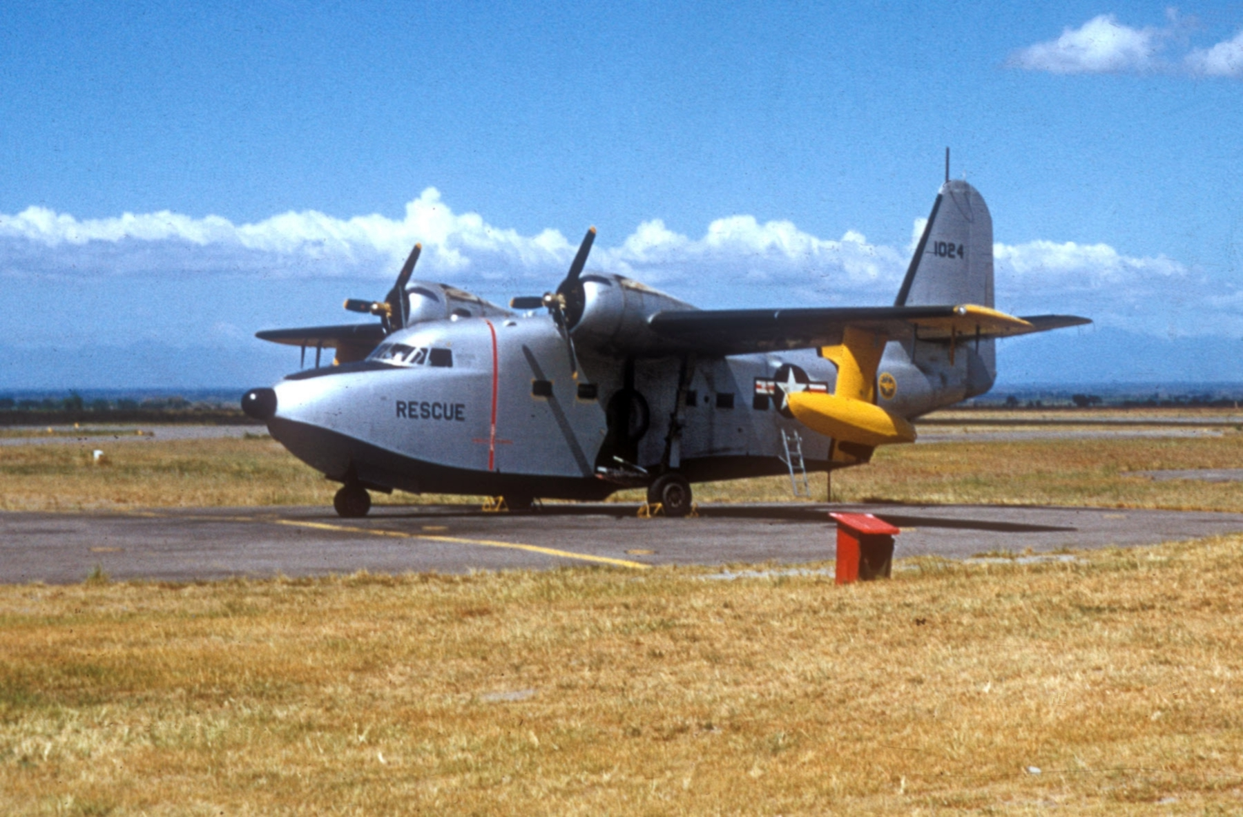 A U.S. Air Force Grumman SA-16A Albatross amphibian (s/n 51-024) stands ready for the next rescue mission during the Korean War. 51-024 was sold to Chile in 1963 after conversion to an SHU-16B. Today it is on display at the National Aeronautics Museum in Santiago, Chile.